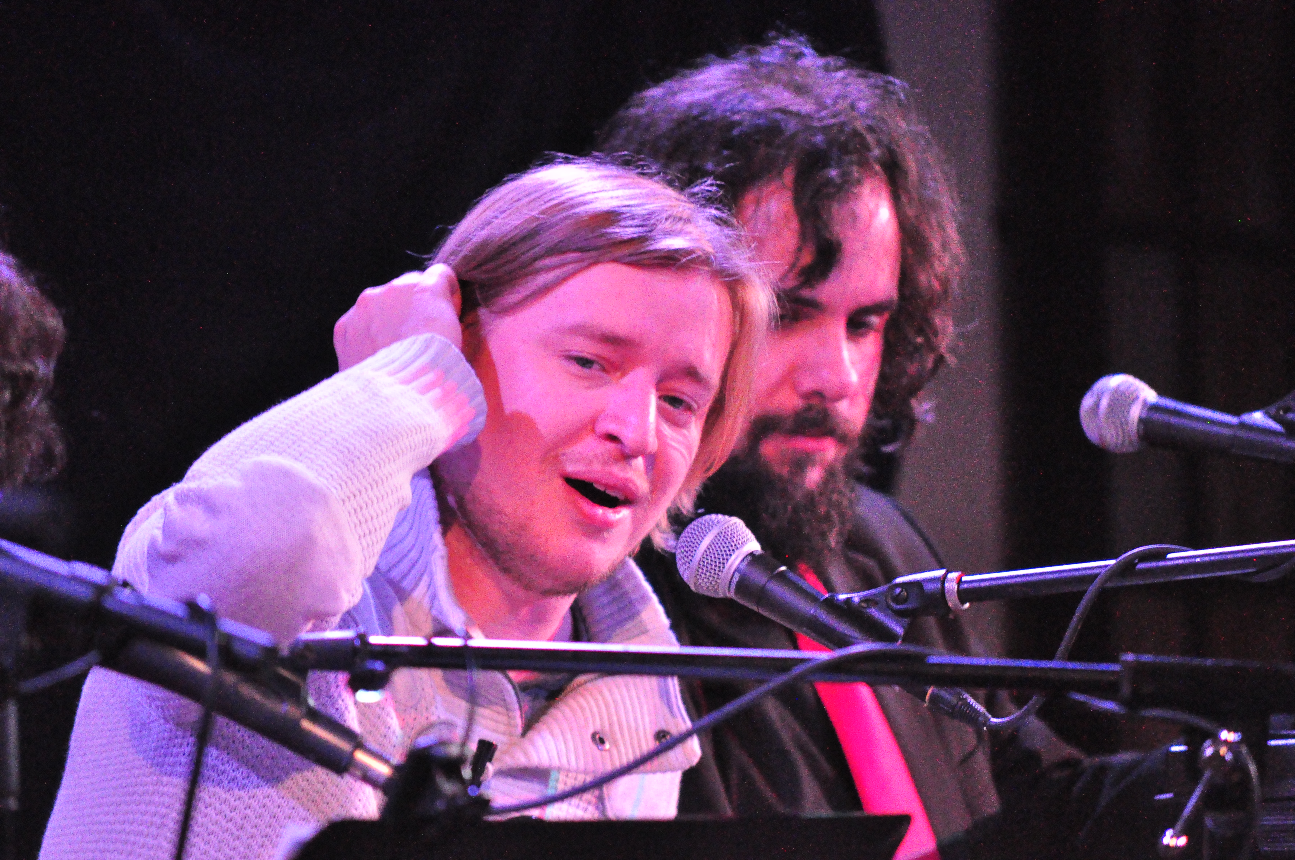 Chris Price and, in background, Fernando Perdomo performing with Linda Perhacs (not shown) at the Fremont Abbey, Seattle, Washington, U.S., March 22, 2014.